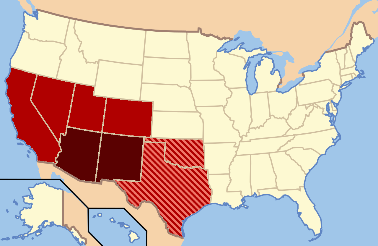 Dark Red: Almost always considered the Southwest Lighter Red: Sometimes considered the Southwest and always considered to be in the West Striped: Sometimes considered the Southwest, though not considered to be in the West